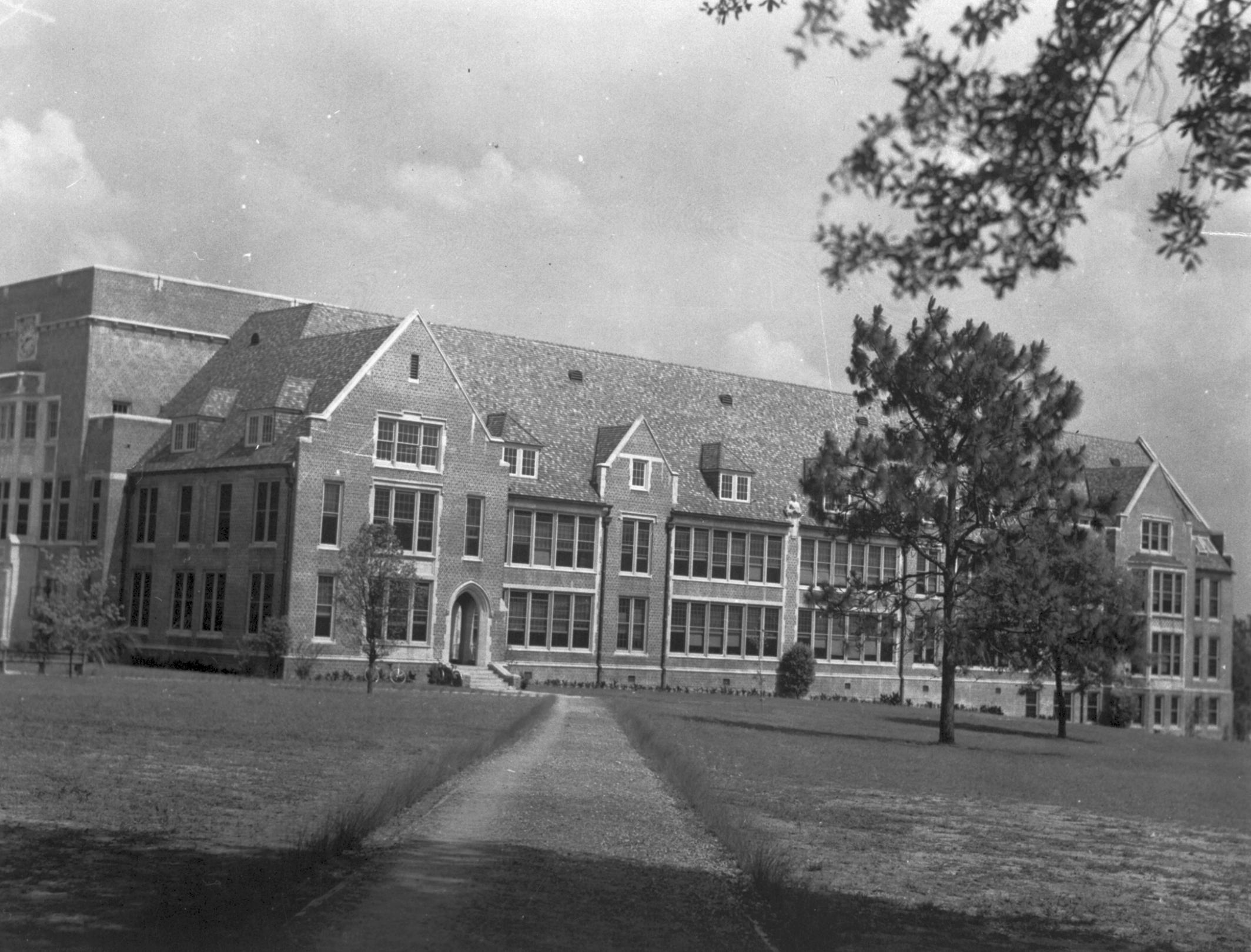 A historic photo of Norman Hall